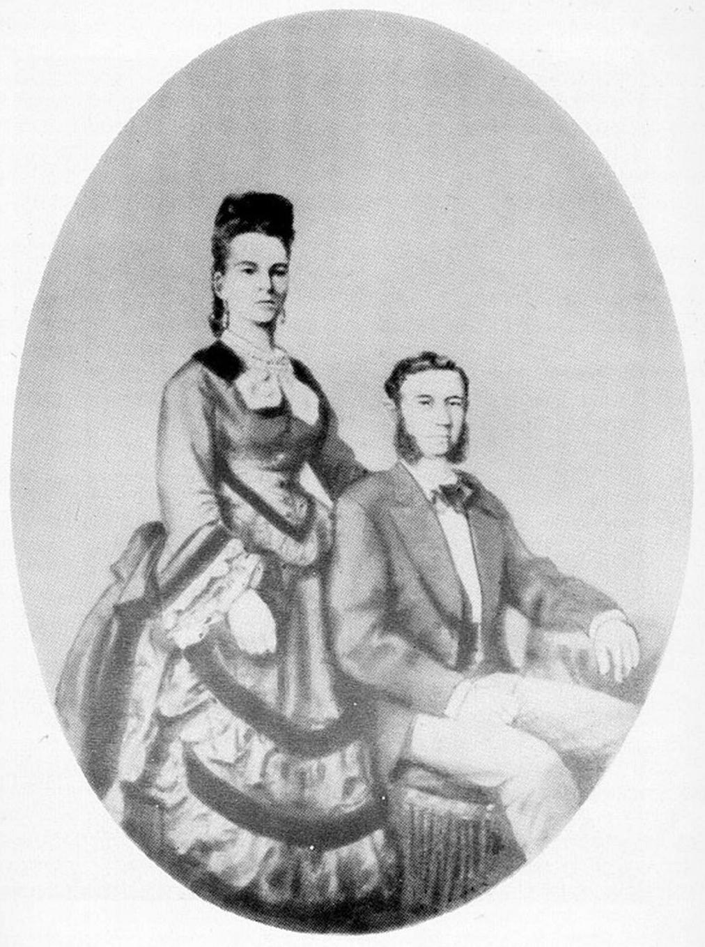 Rosalie Ida Blun & Isidor (Isador) Straus: marriage